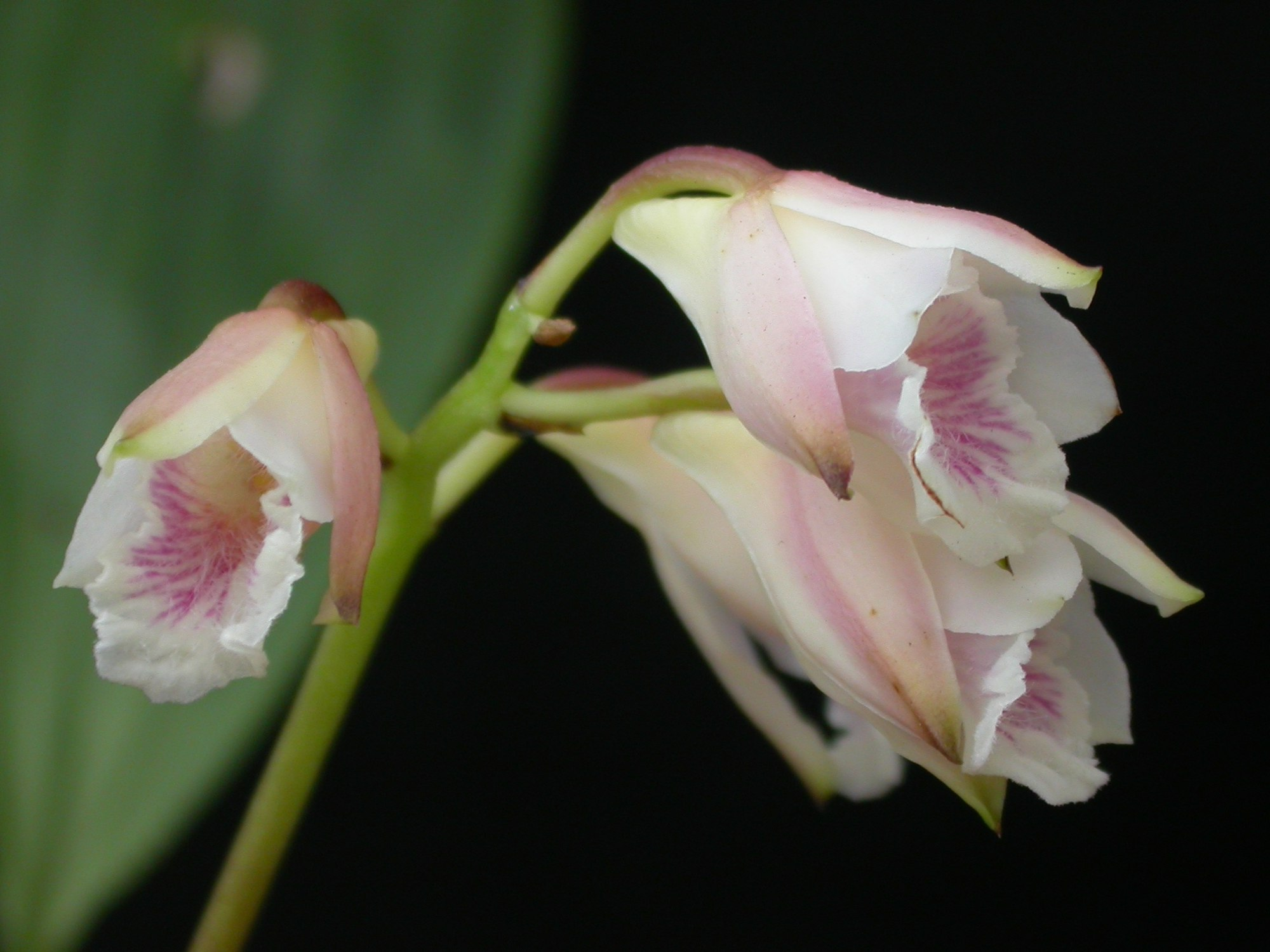 Bifrenaria leucorrhoda